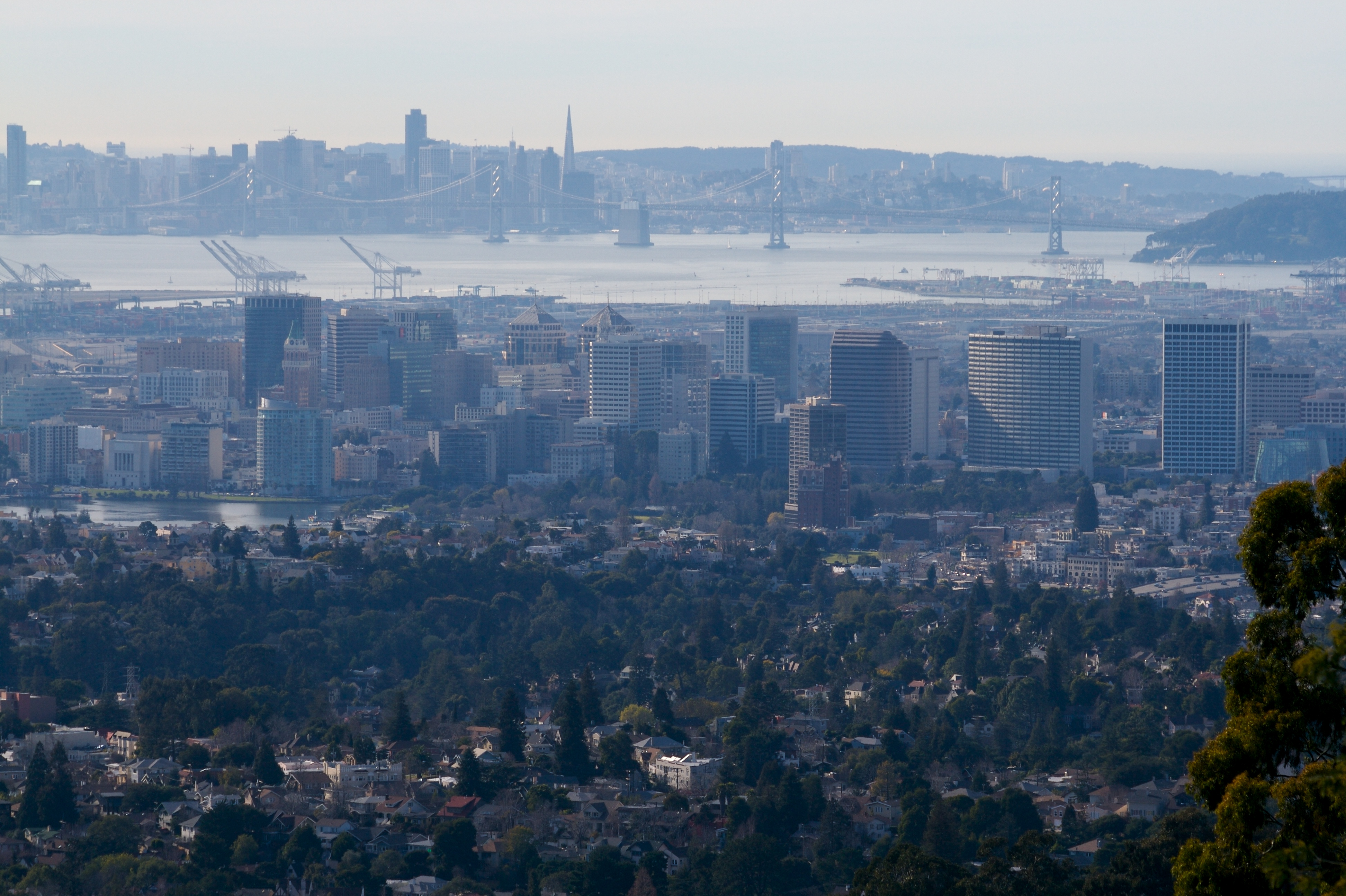 Oakland skyline — view from the Berkeley Hills. by Jesse Richmond